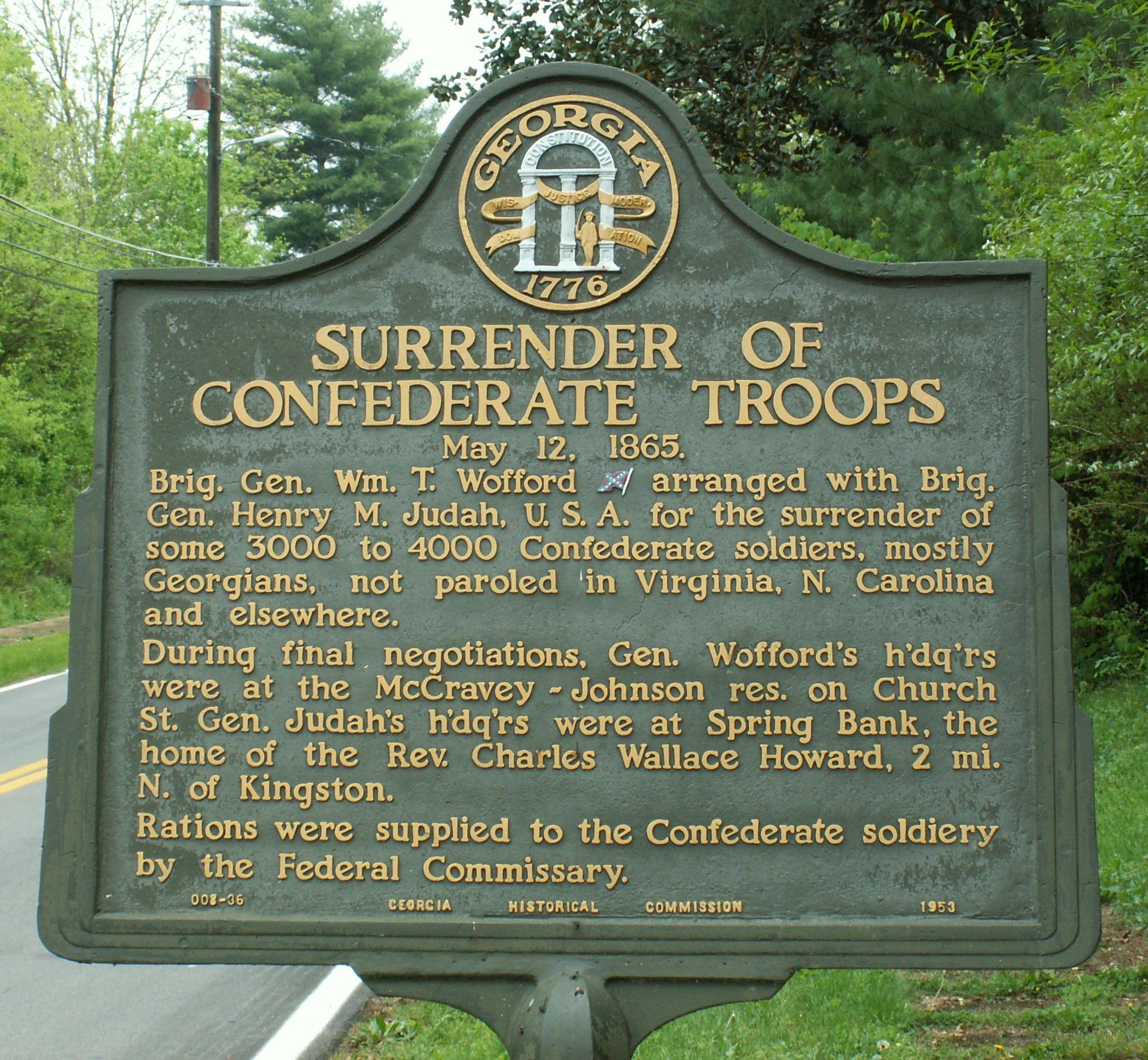 Surrender of Confederate forces in North Georgia on May 12, 1865, plaque.